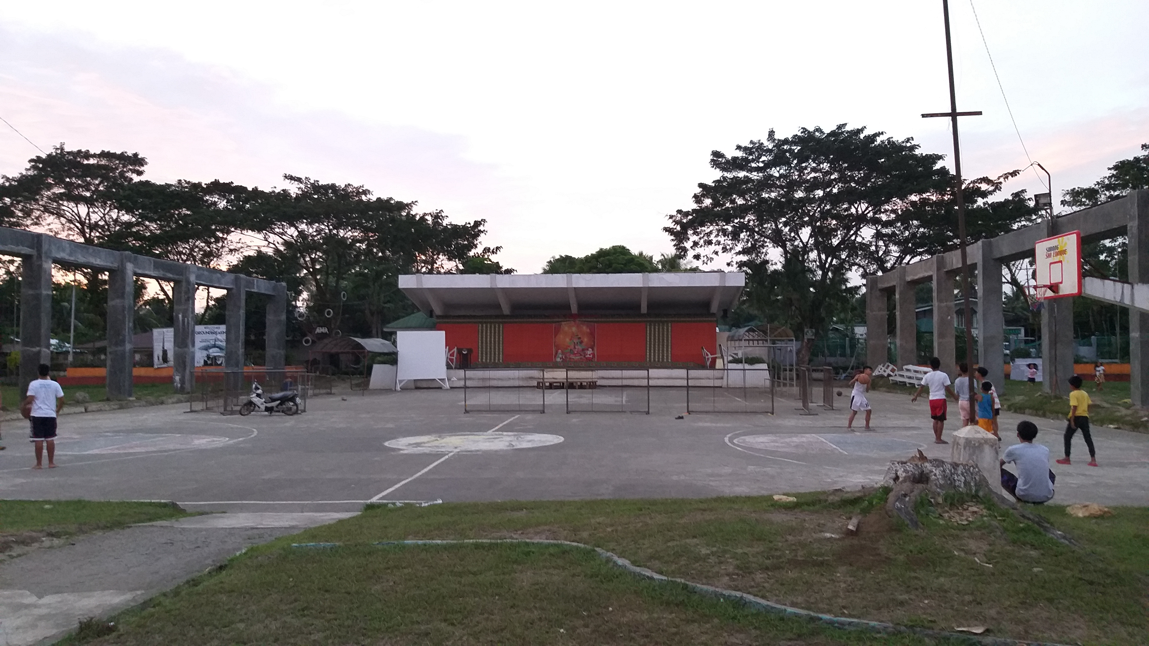 Town plaza of San Enrique. Notice on the left and right side of the photo is the pillar of the ongoing gymnasium construction.